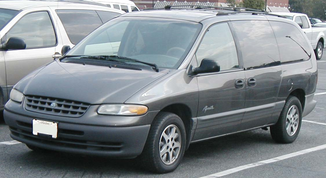 1996-2000 Plymouth Grand Voyager photographed in USA.